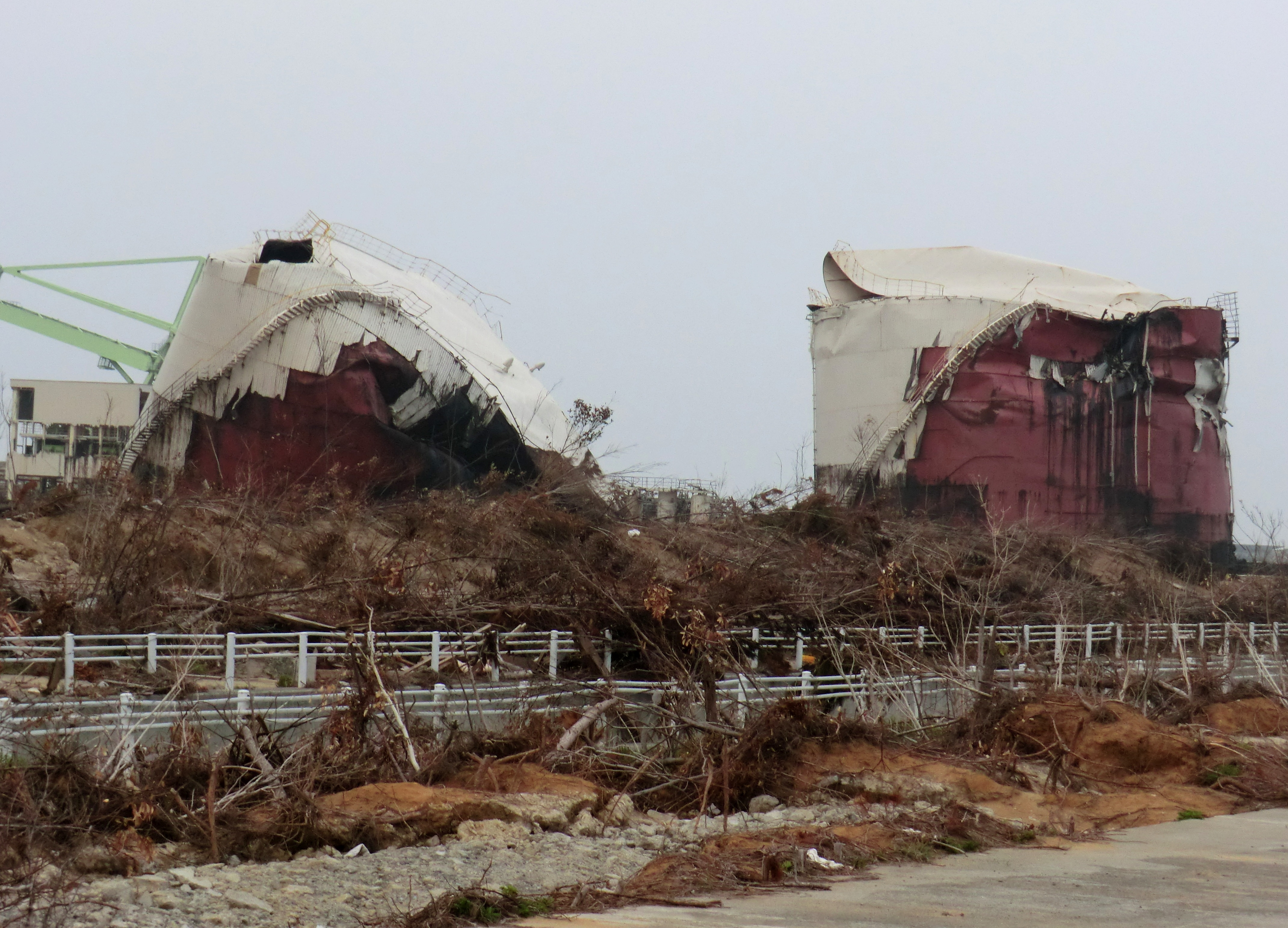 Damaged heavy oil tanks in Haramachi Thermal Power Plant, June 2011.